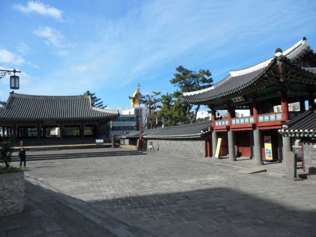 Gwandeokjeong Pavilion and Jeju Mok Office located in Jeju, South Korea.